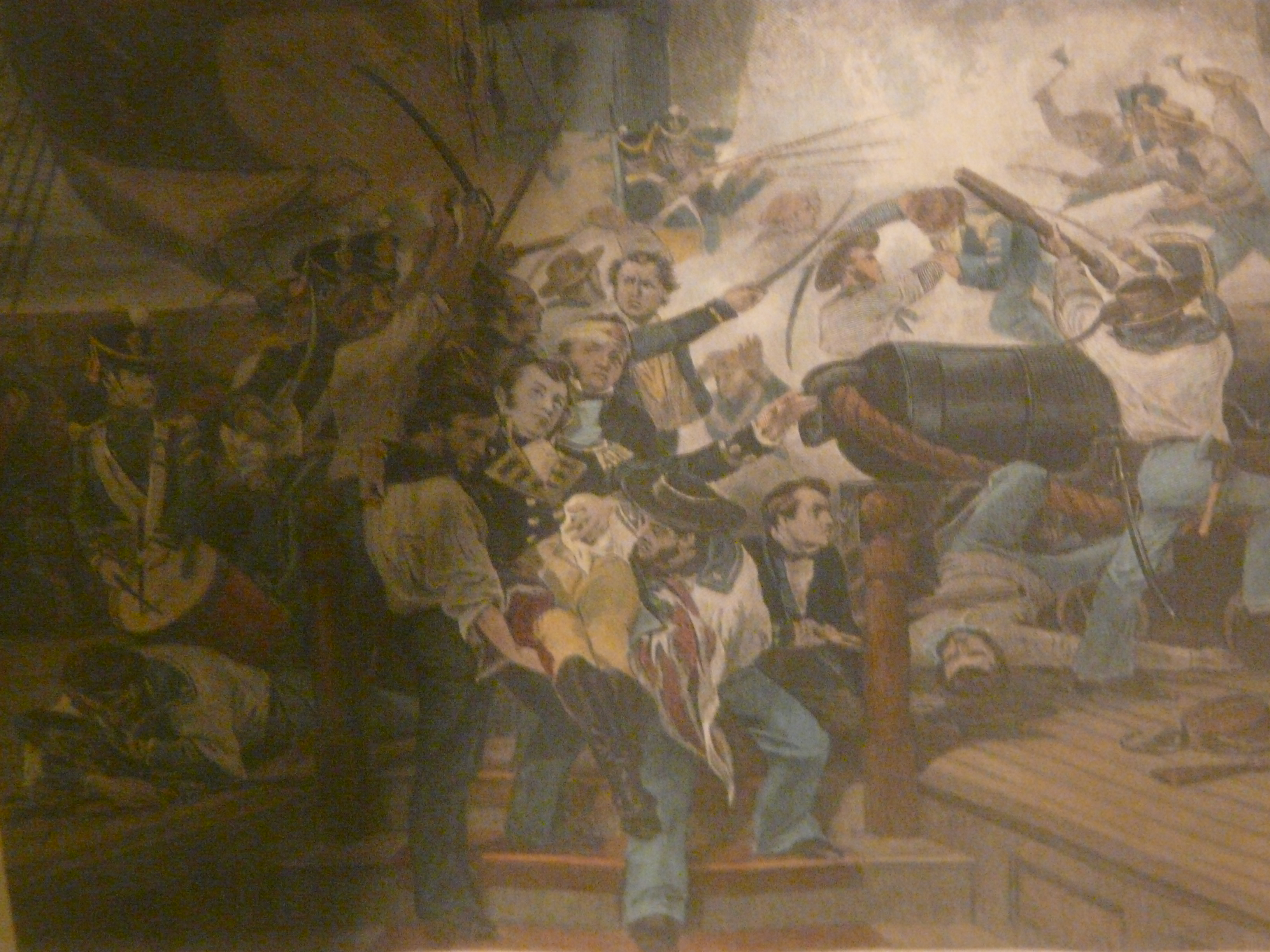 (incomplete title, as I didn't capture the entire plaque, please fix)"...Lawrence. Don't Give Up the Ship." Johnson, Fry & Co. after A. Chappel. NY. Hand-colored engraving. 1867. Independence Seaport Museum